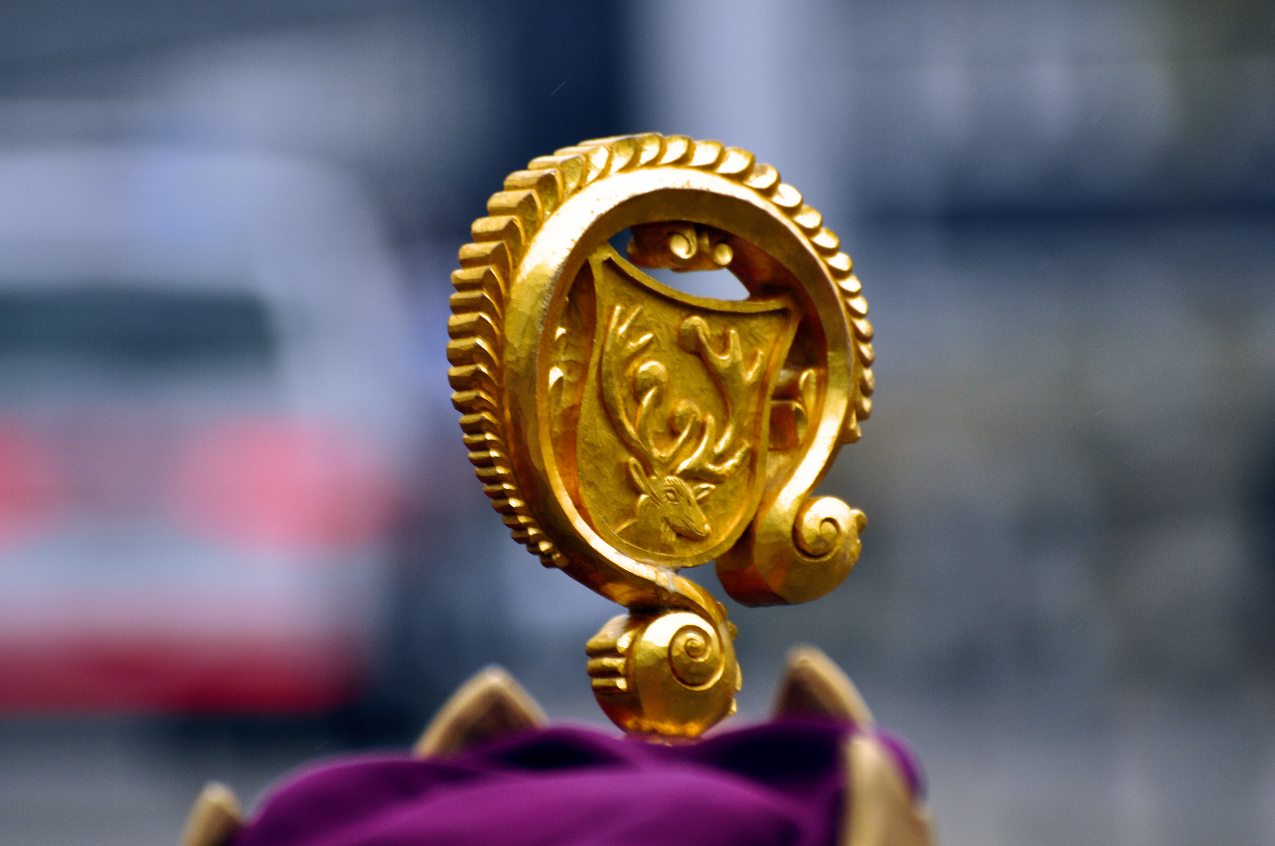 Hohe Fraumünster-Frau of the honorable Gesellschaft zu Fraumünster (Fraumünster society respectively guild), being (unwanted) 'guests' at the parade of the Zünfte (guilds), Bahnhofstrasse in Zürich (Switzerland) on Sechseläuten-Montag, April 16, 2012.